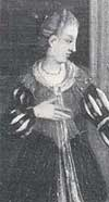 Matilda of Habsburg, Duchess of Bavaria